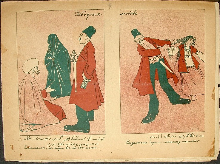 Azerbaijani magazine criticising the practice of forced marriage, domestic violence, and the social and political participation of women in society. Forced marriage is the theme for the cartoon with the caption in Russian Svobodnaya lyubov – Free love. The image should be read from right to left as Arabic script was used to write Azeri at the time. The first picture in the right: If you do not want to go voluntarily, I will take you by force. In the next picture: The akhun – cleric says: “Lady, since you don’t say anything, it seems that you agree. By the order of God I marry you to this gentleman”. Molla Nasreddin magazine (in Azeri), published between 1906-1931